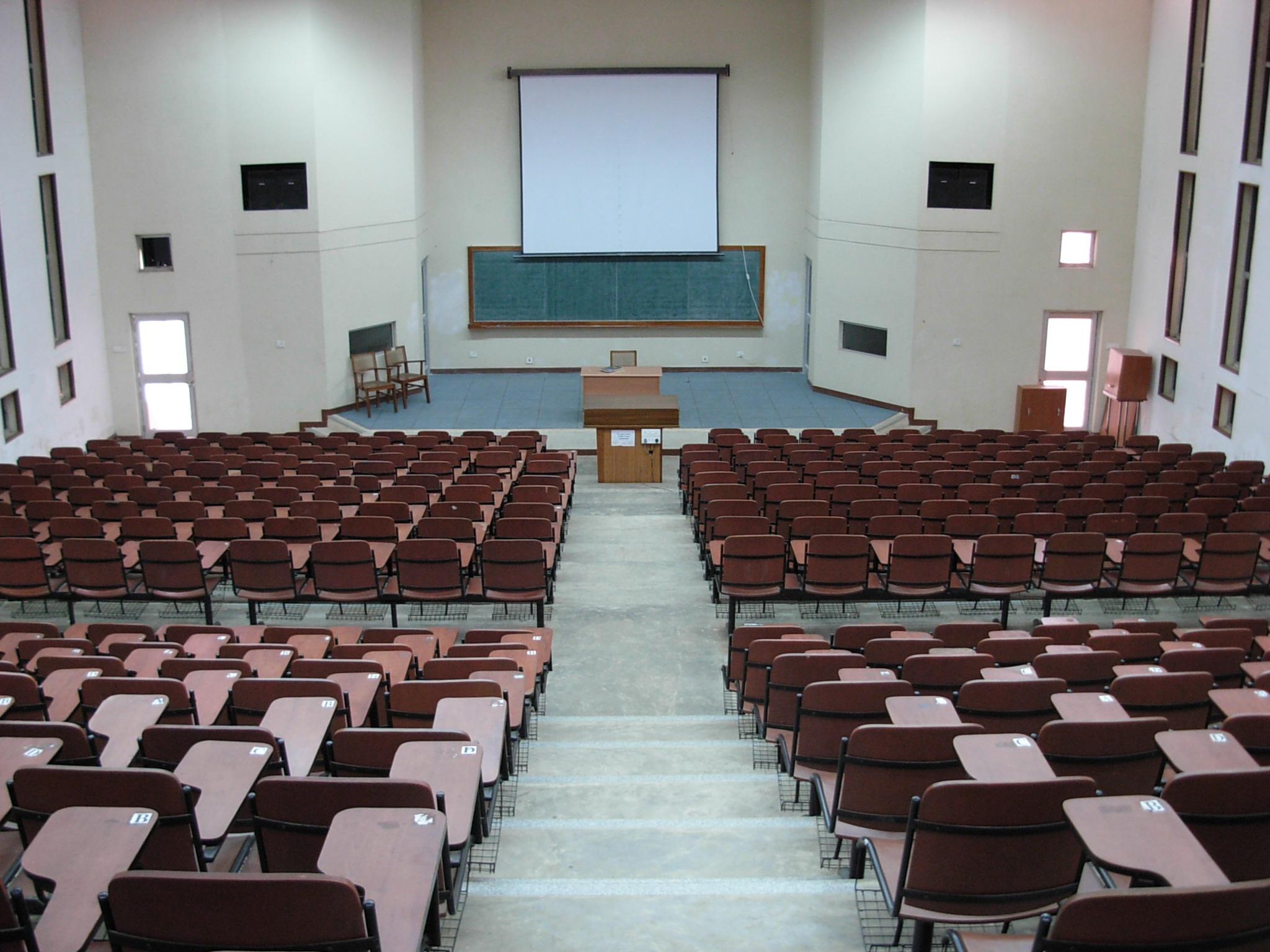 V1 Auditorium of Vikramshila Academic Complex in IIT Kharagpur